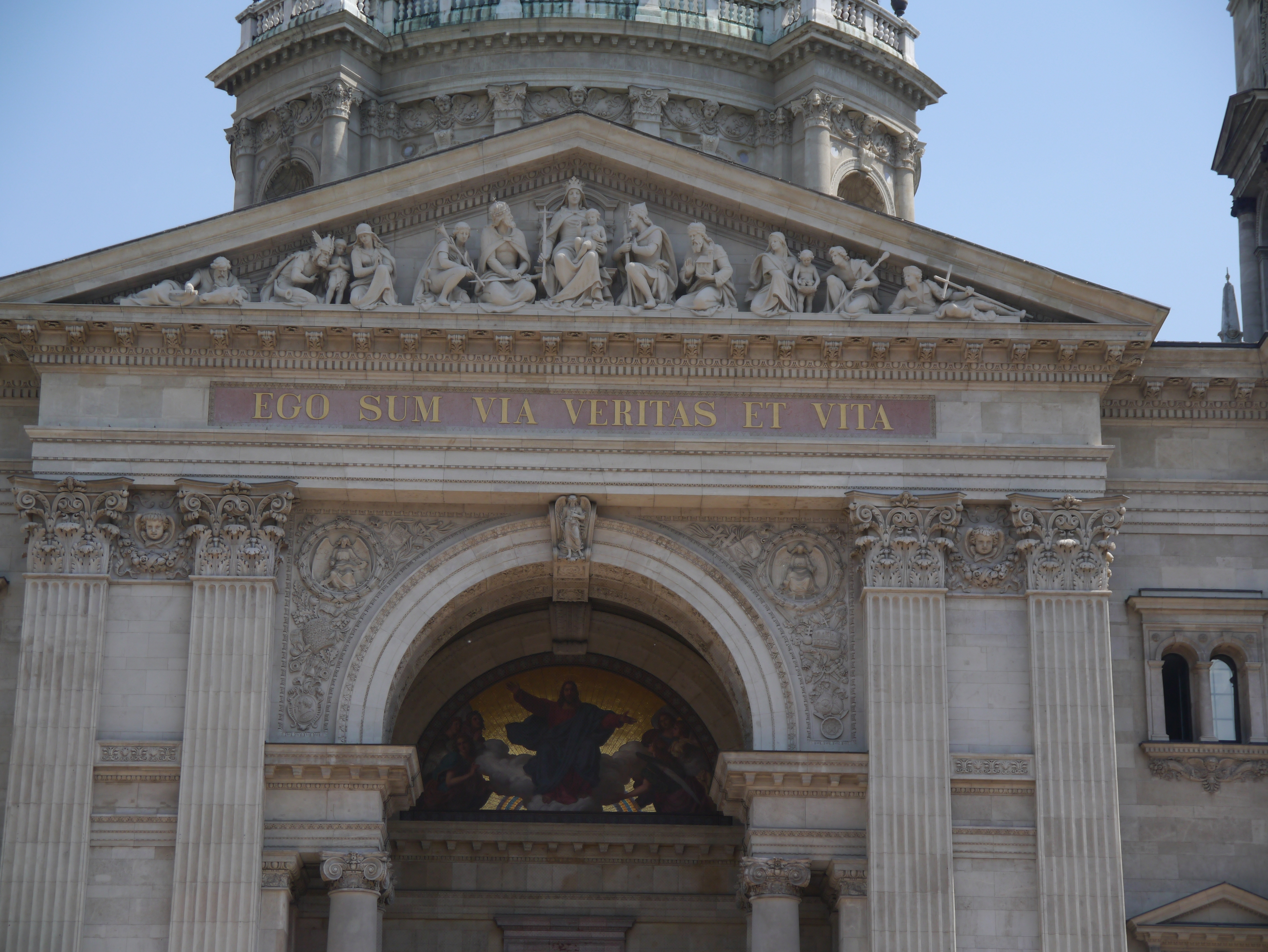 Facade of the Basilica St. Stephen, Budapest, Northern Hungary